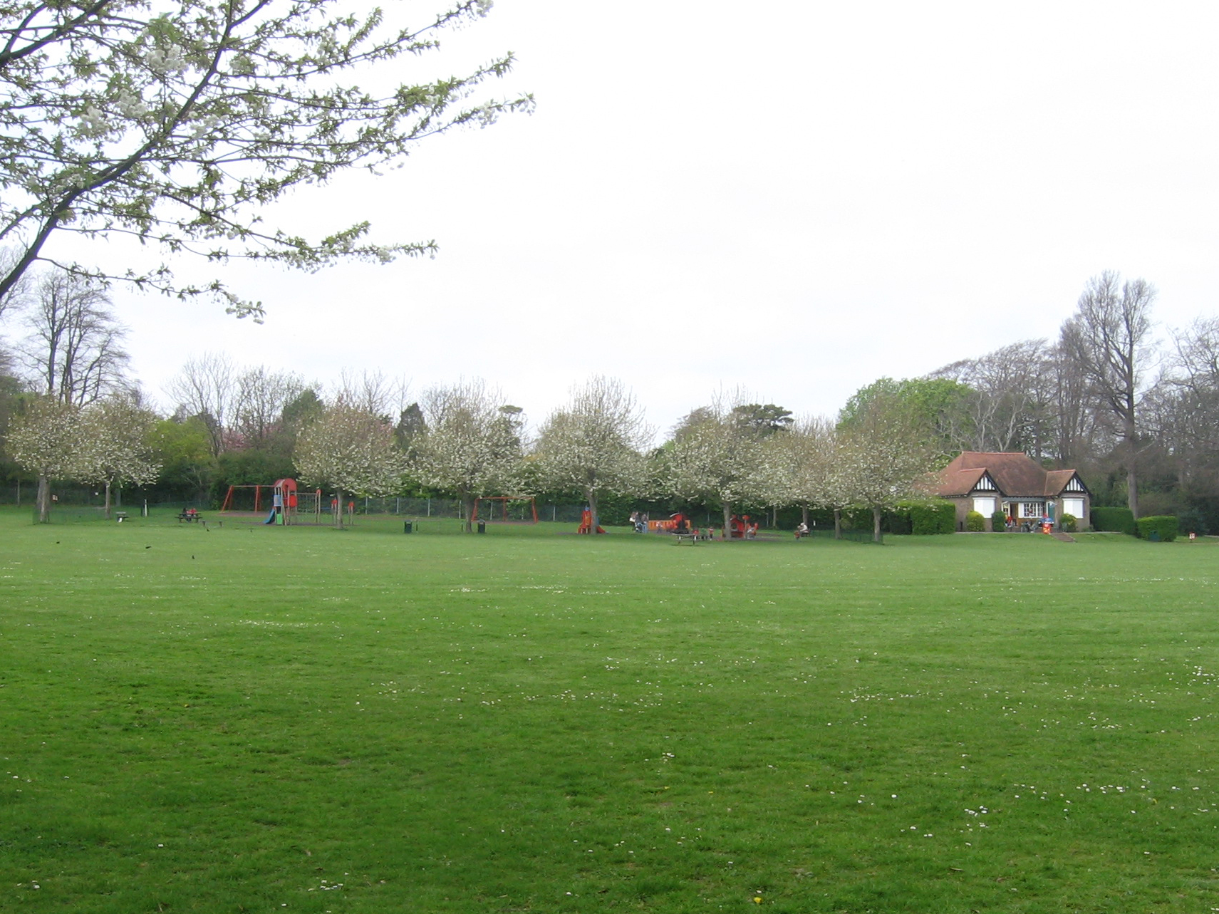 Gildredge Park, Eastbourne